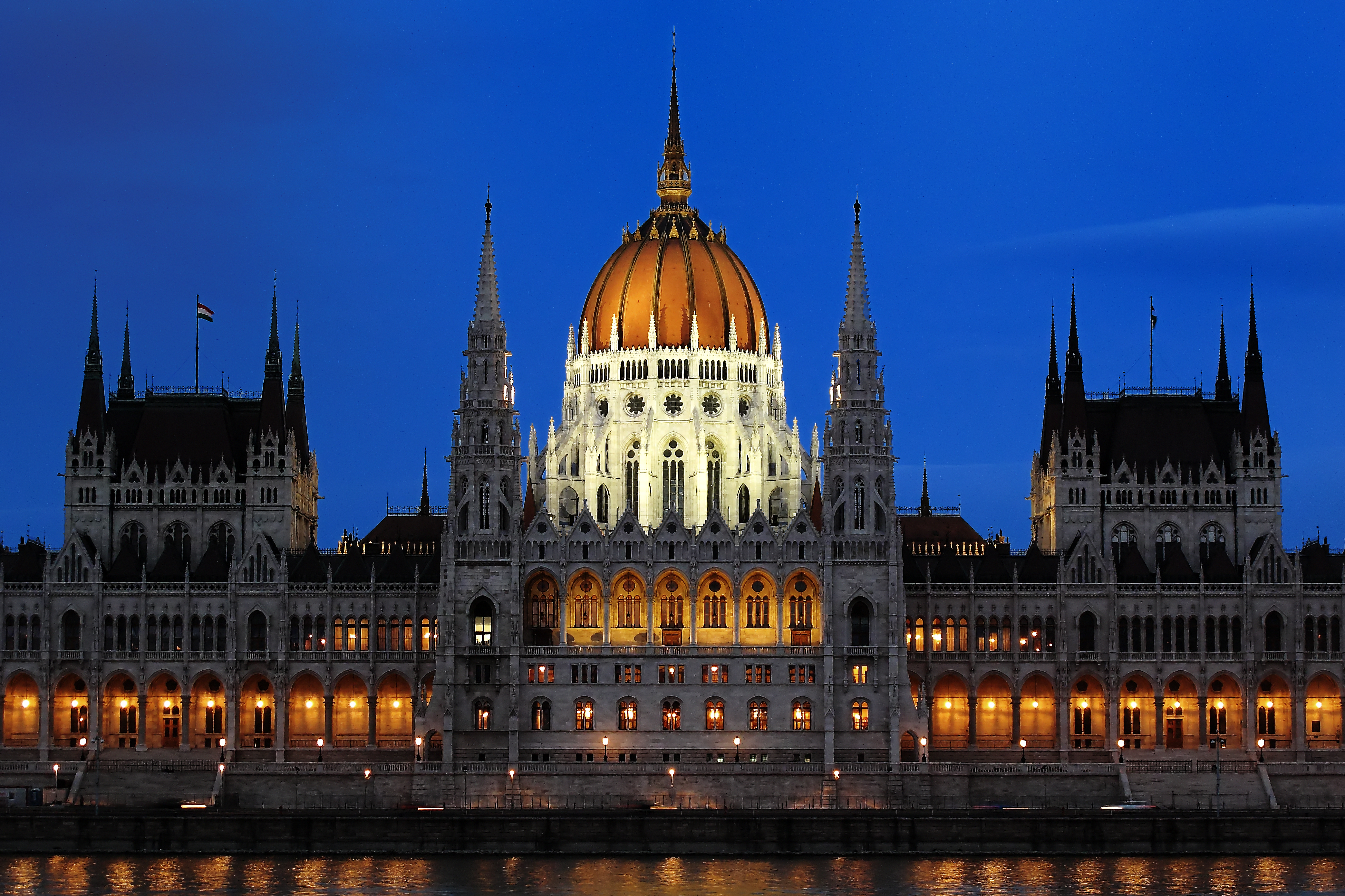 Hungarian Parliament Building (Budapest, 5th district, Kossuth Lajos square)